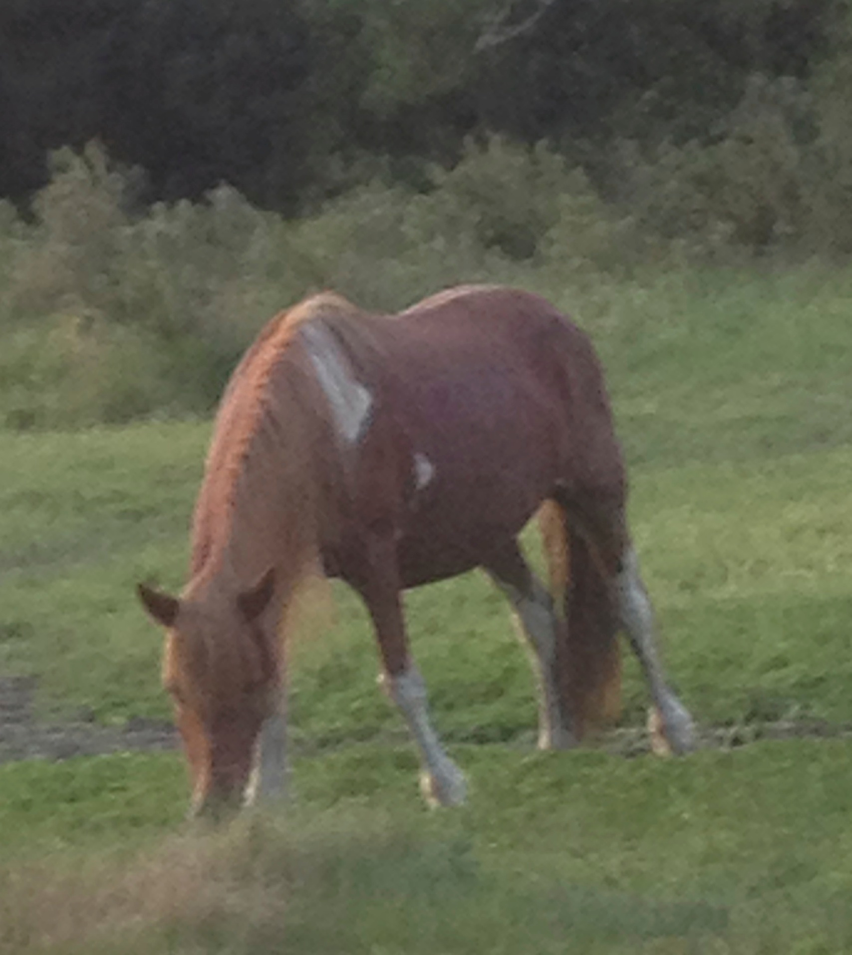 A Chincoteague pony, Assateague Island, Virginia